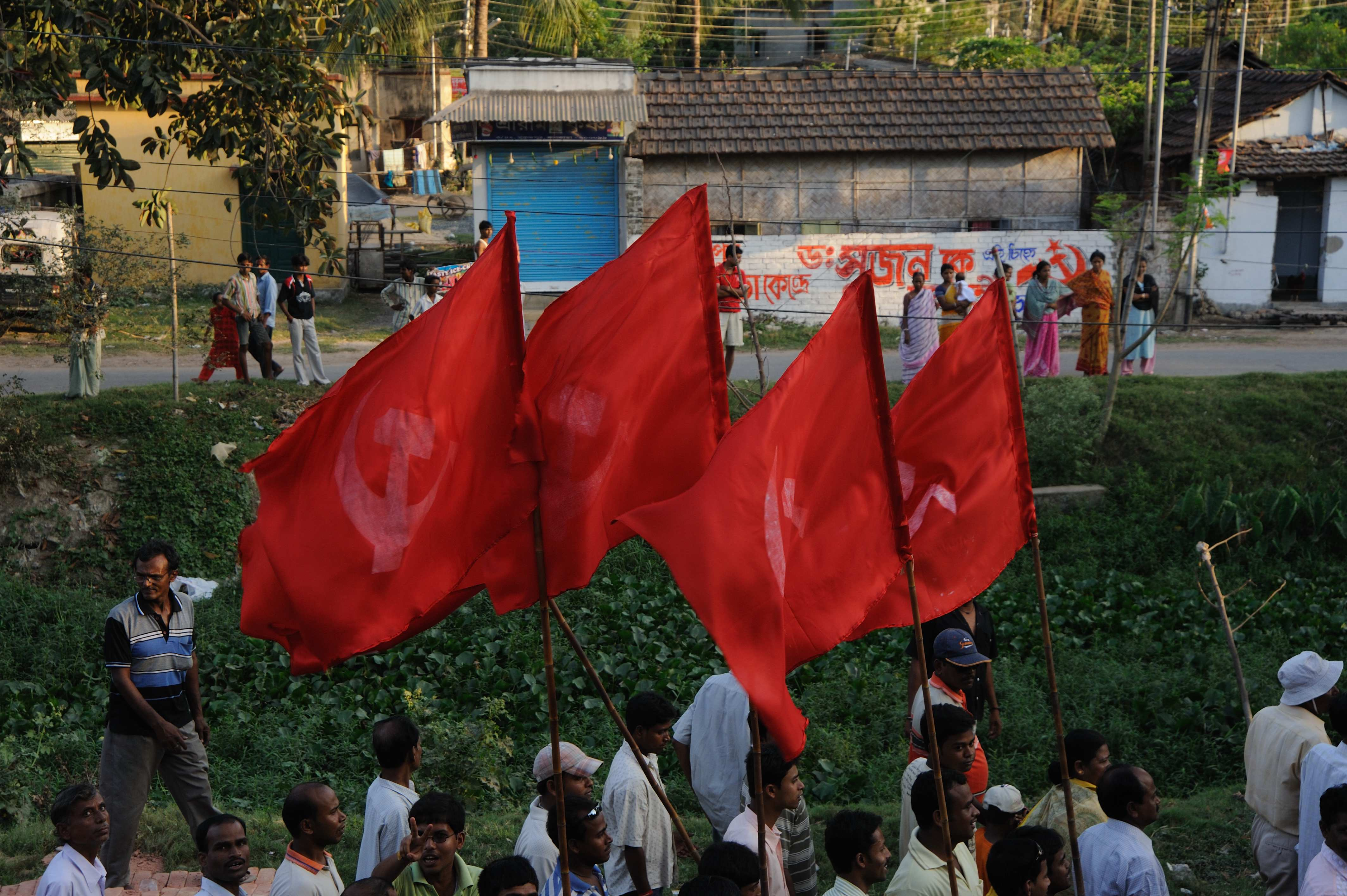 Indian voters march in support of the Communist Party of India (Marxist) in West Bengal